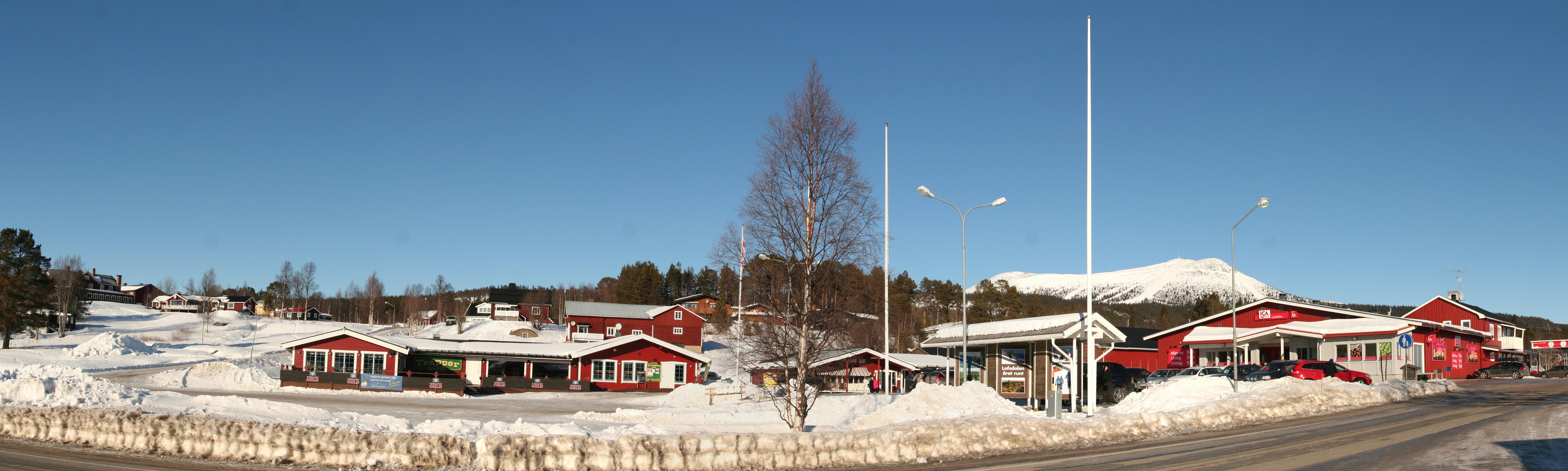 The central parts of the village (or rather hamlet) Lofsdalen in Sweden.